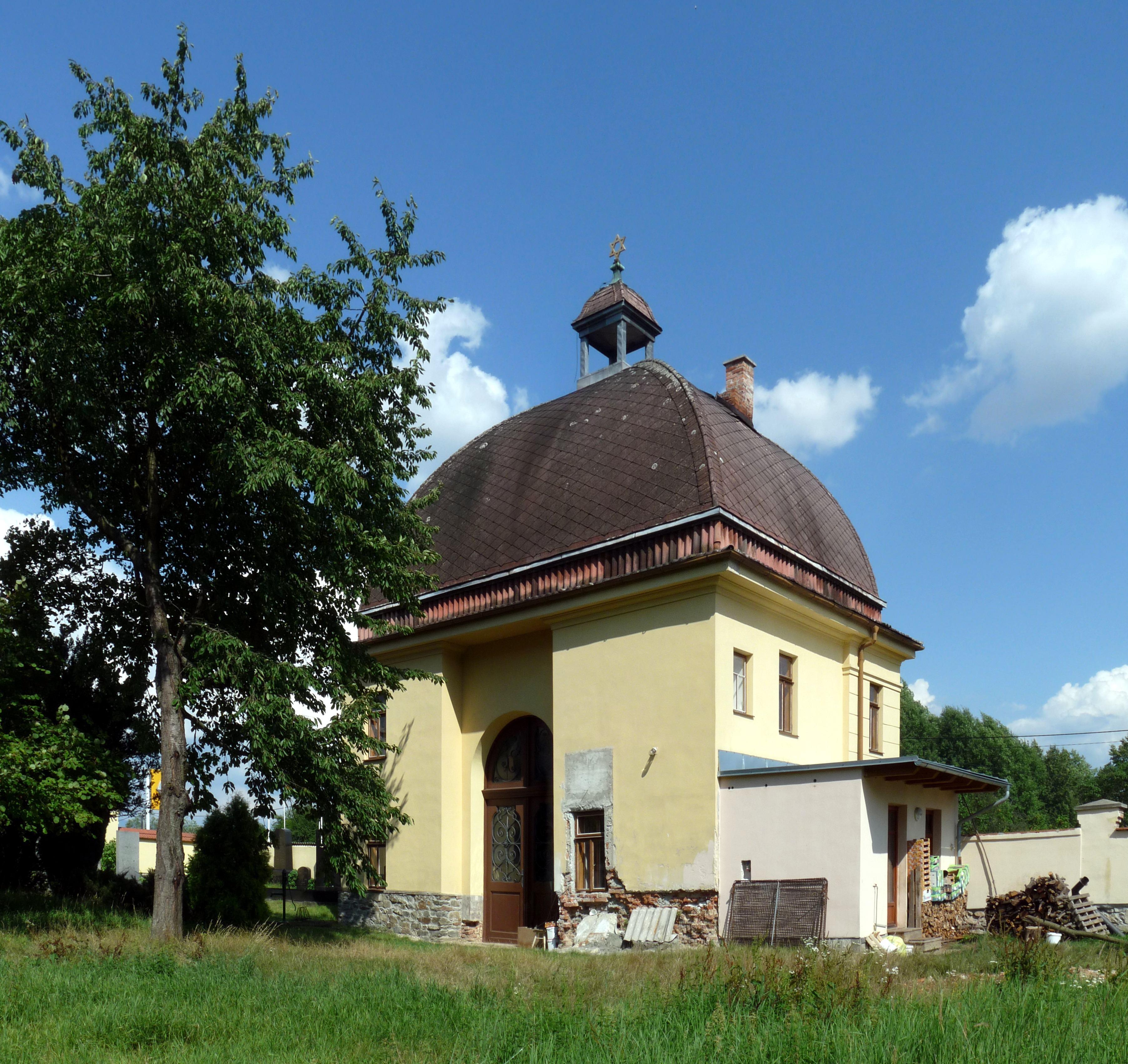 Ceremonial hall in the Jewish cemetery in the town of Šumperk, Olomouc Region, Czech Republic.